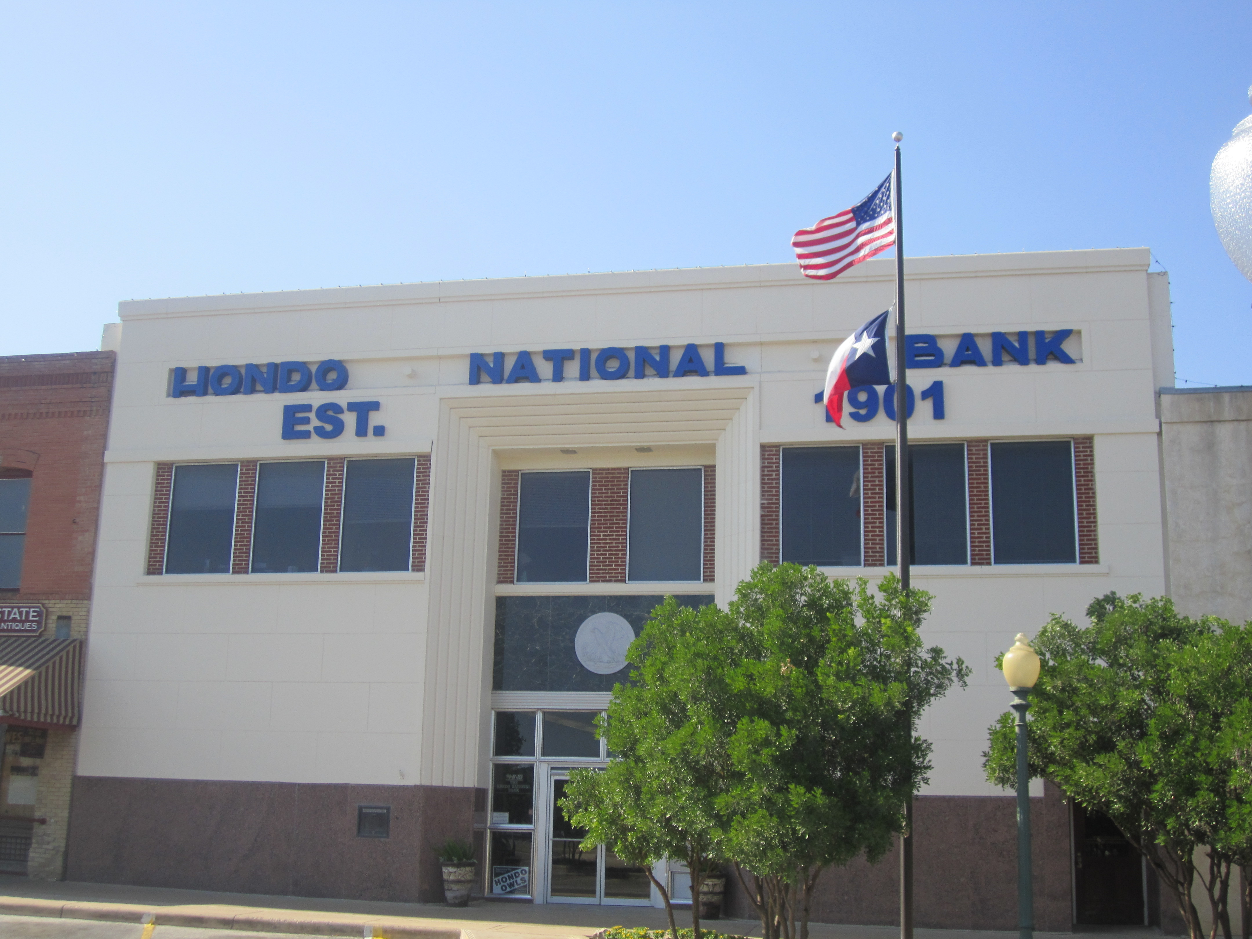 I took photo of Hondo National Bank in Hondo, TX, with Canon camera.